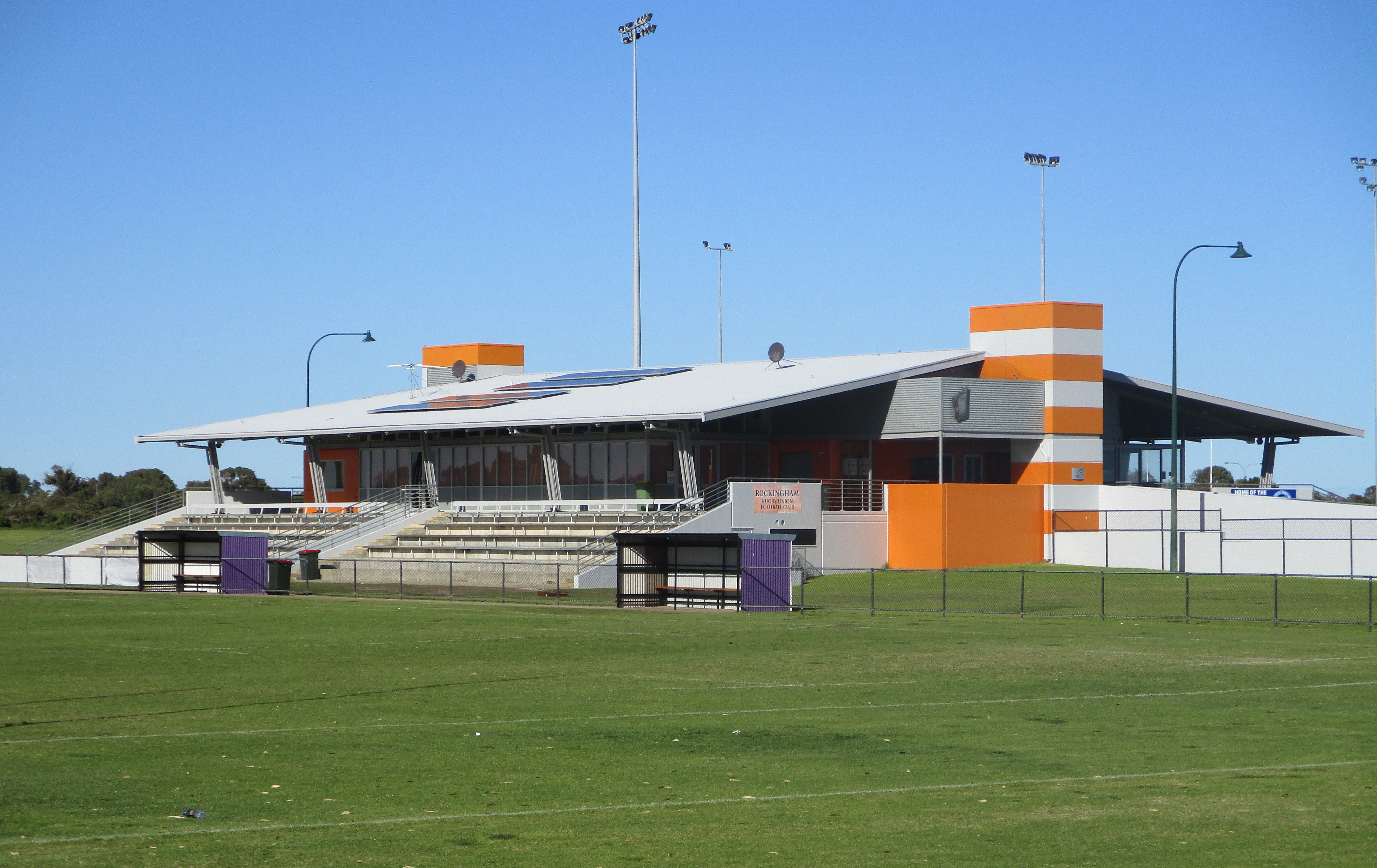 The Lark Hill Sports Complex, Port Kennedy, Western Australia. The Rugby League & Union club house.